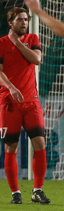 David Khurtsidze with FC Ararat Moscow in a Russian Cup game against FC SKA-Khabarovsk.